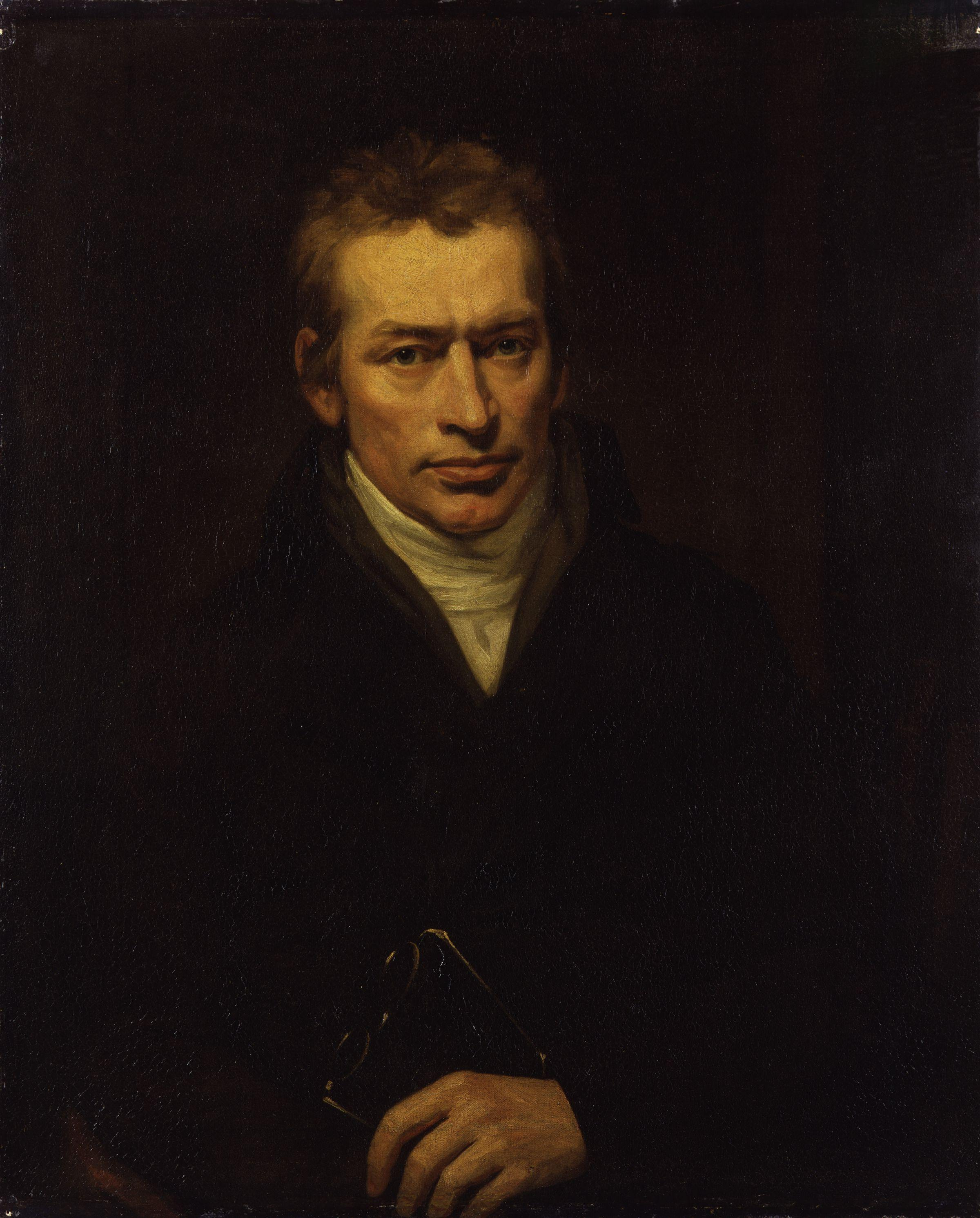 Thomas Holcroft, by John Opie (died 1807). All images in this batch have been confirmed as author died before 1939 according to the official death date listed by the NPG.